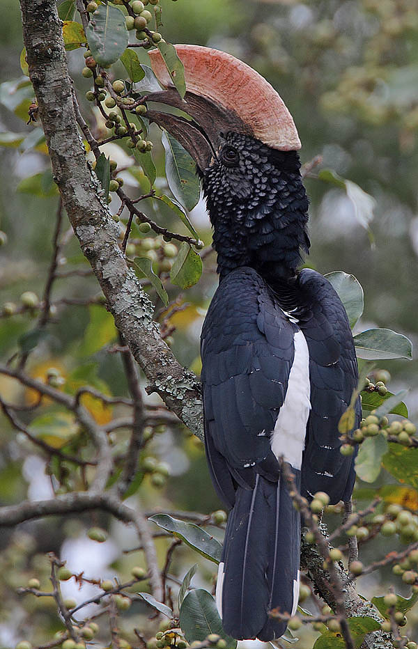 A male Silvery-cheeked Hornbill on the forested slopes of Mount Kenya, Kenya.